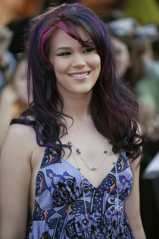 Joss Stone at the 2007 MuchMusic Video Awards red carpet.